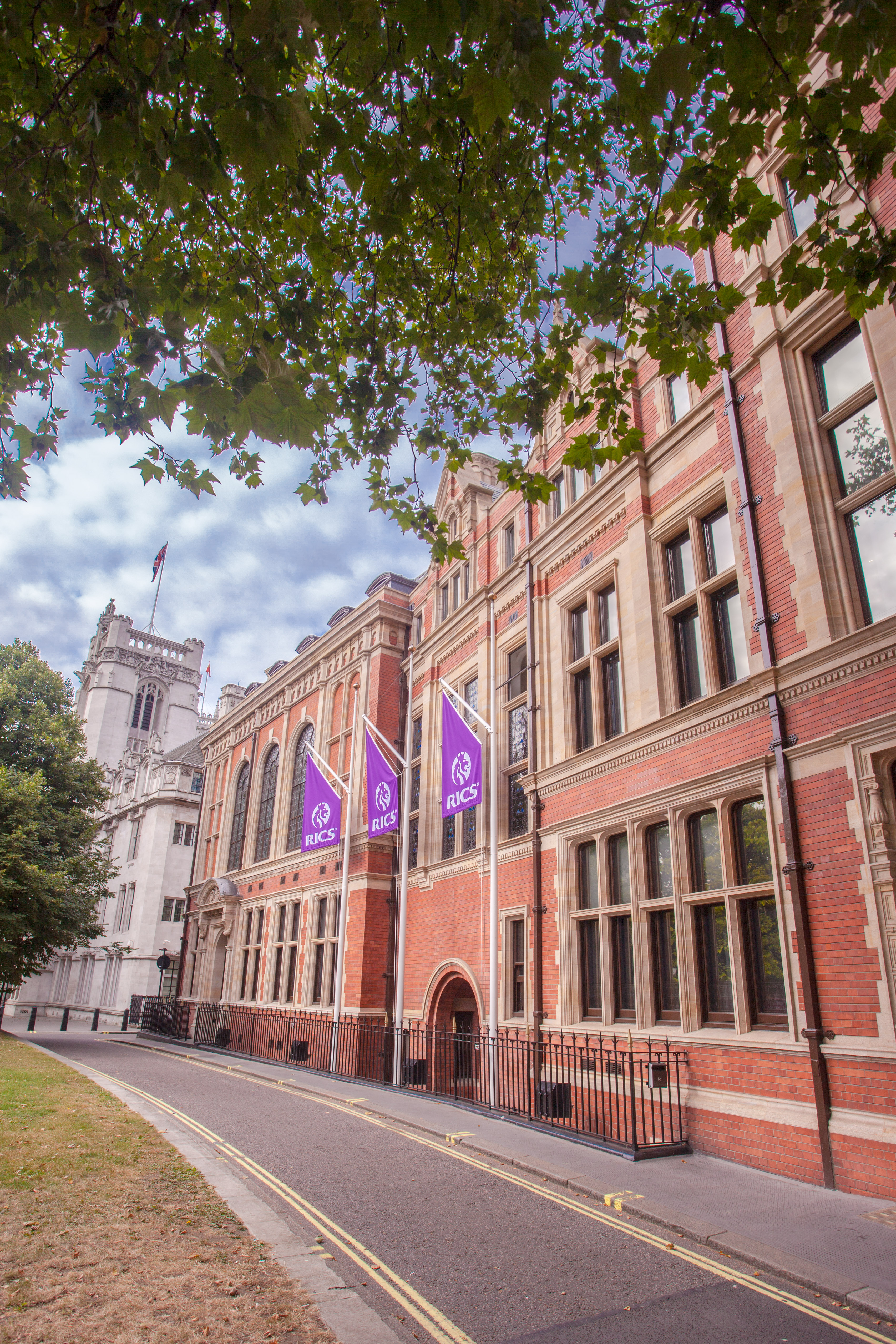 RICS HQ, flags, historic buildings, London